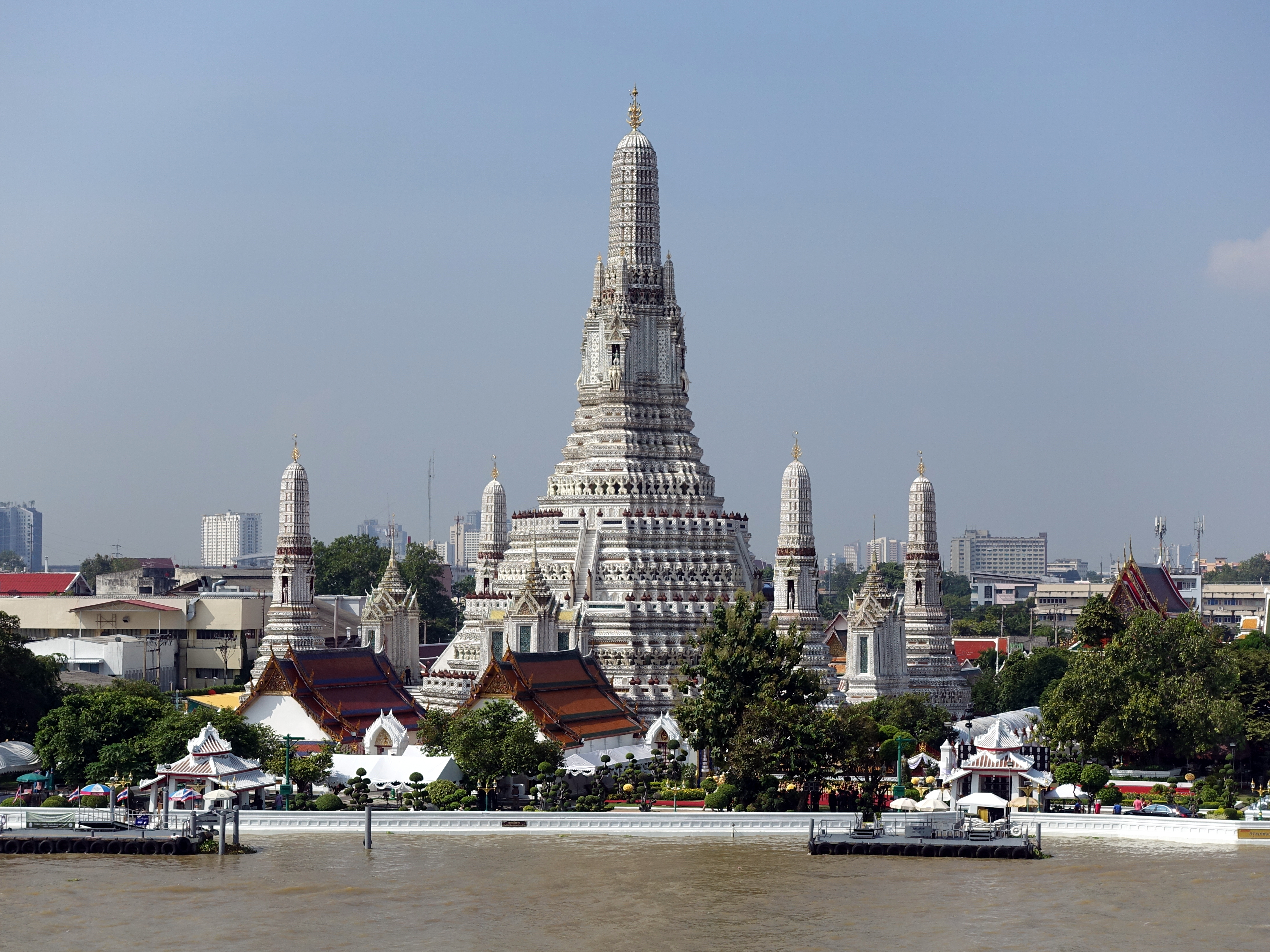 The main prang of Wat Arun from across the Chao Phraya River